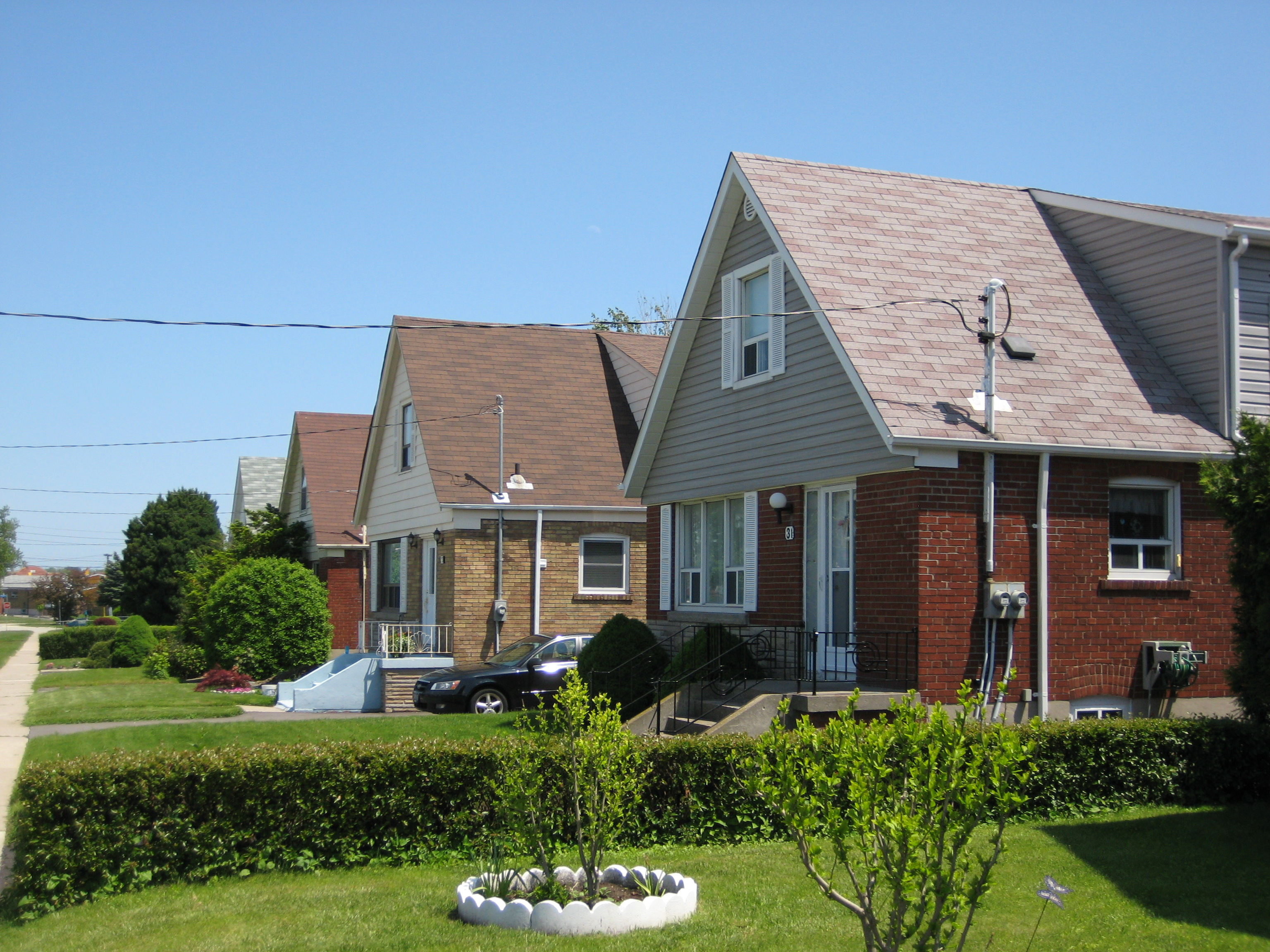 houses in Dorset Park